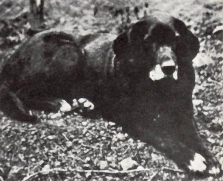 St. John's Dog "Nell", taken 1867. Nell was born in 1856 and owned by the Earl of Home (1799-1881). The photograph shows nell age c. 12.